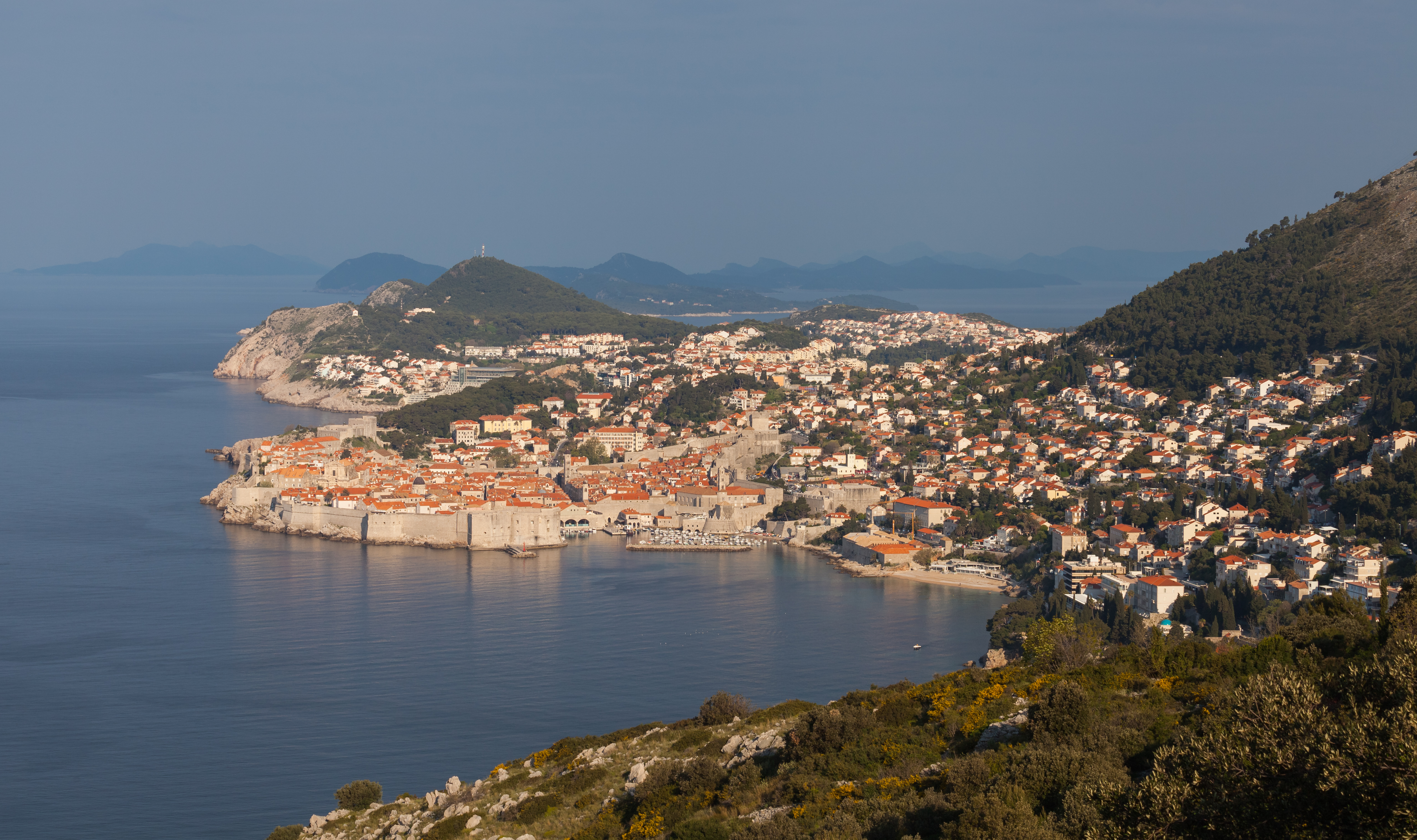 Panoramic view of the old city of Dubrovnik, Croatia